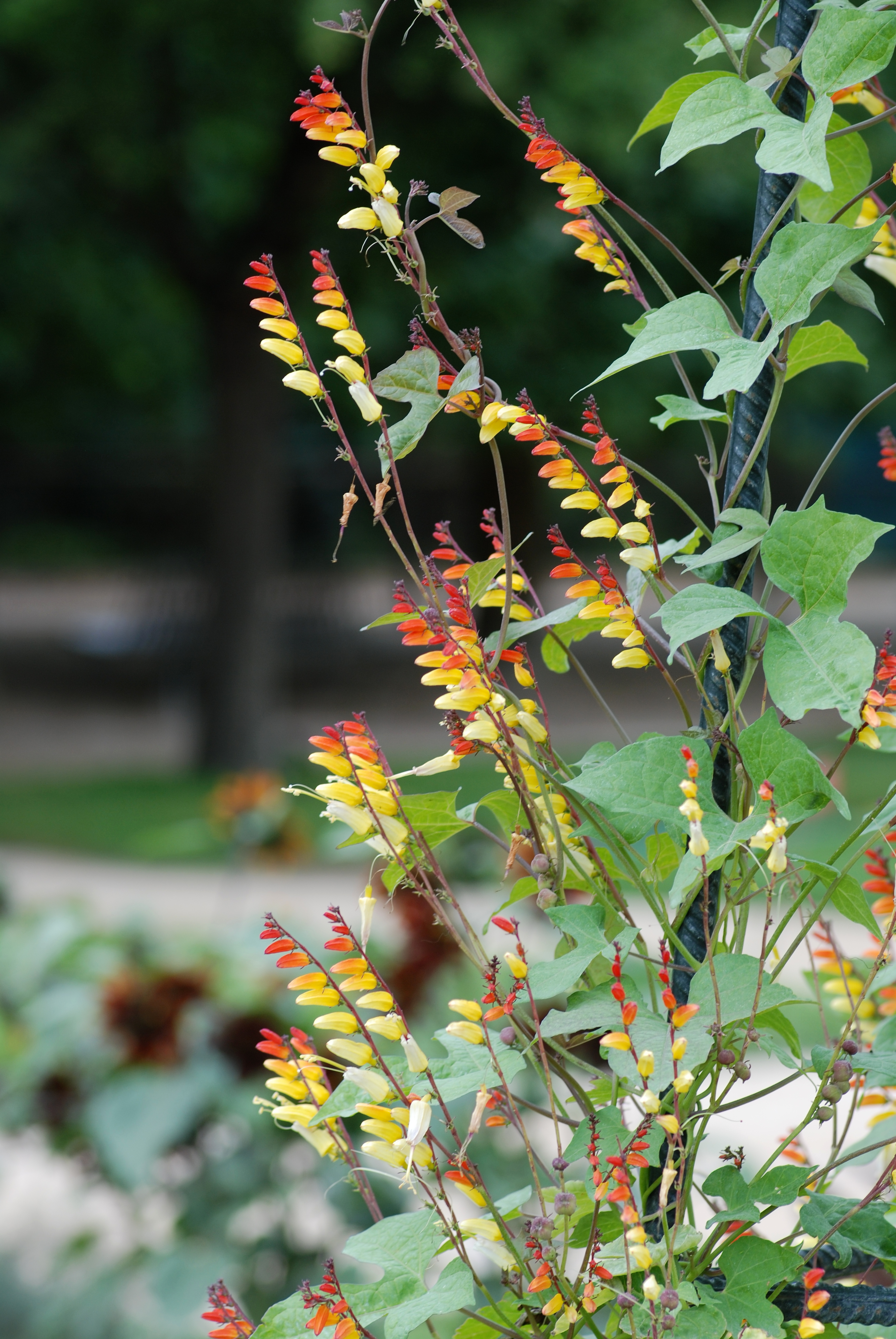 Fire Vine (Ipomoea lobata). Jardin des Plantes, Paris.